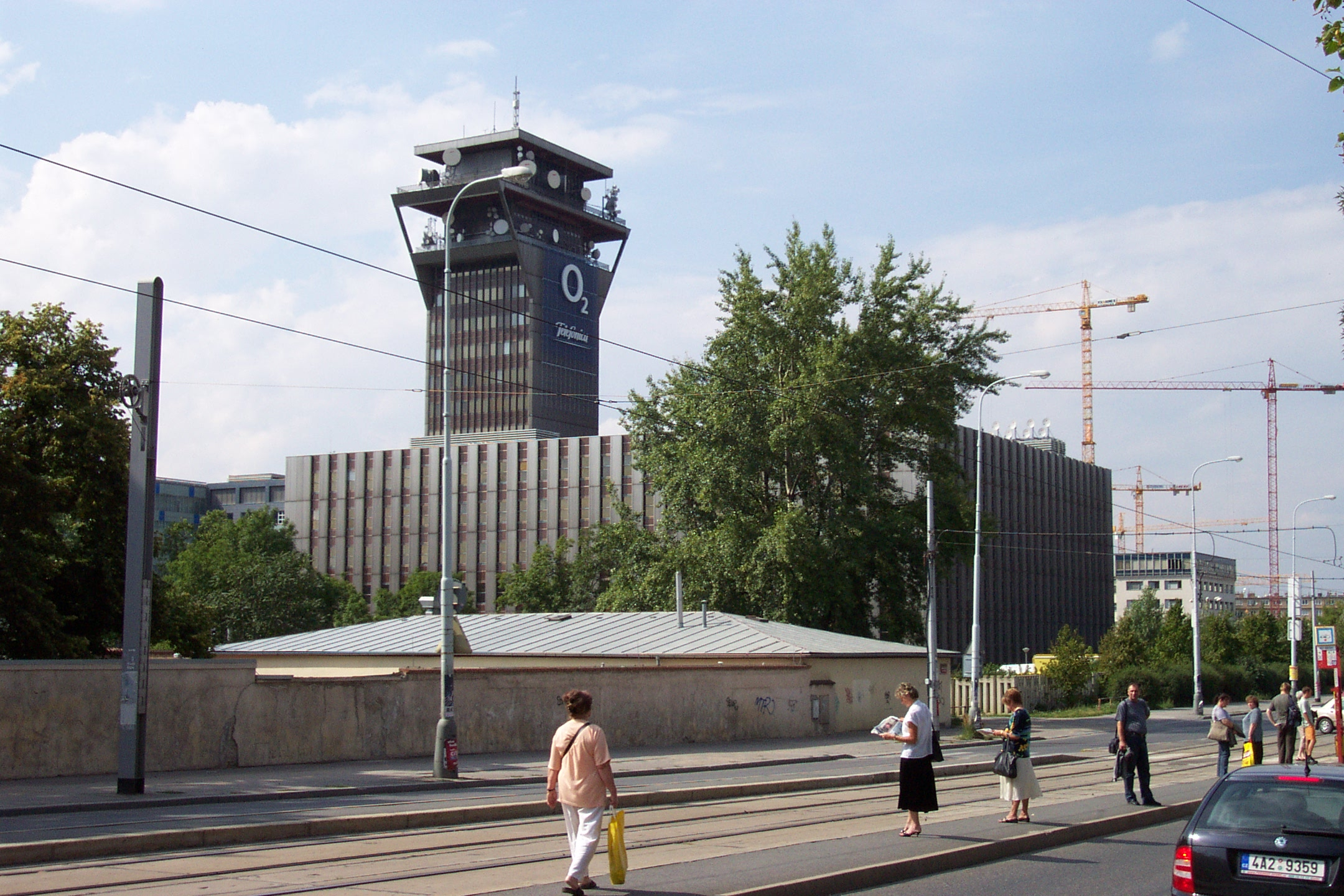 Street Jana Želivského in Prague-Žižkov, the Czech Republic